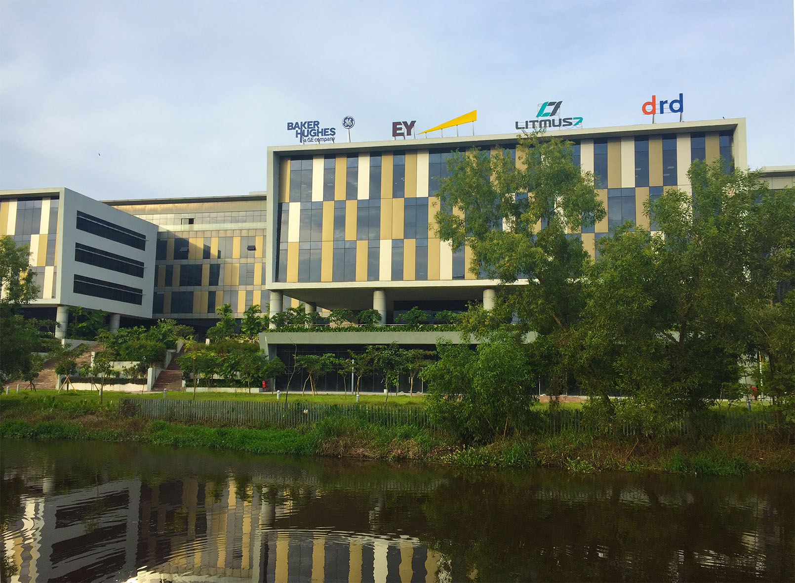 Smart City Kochi